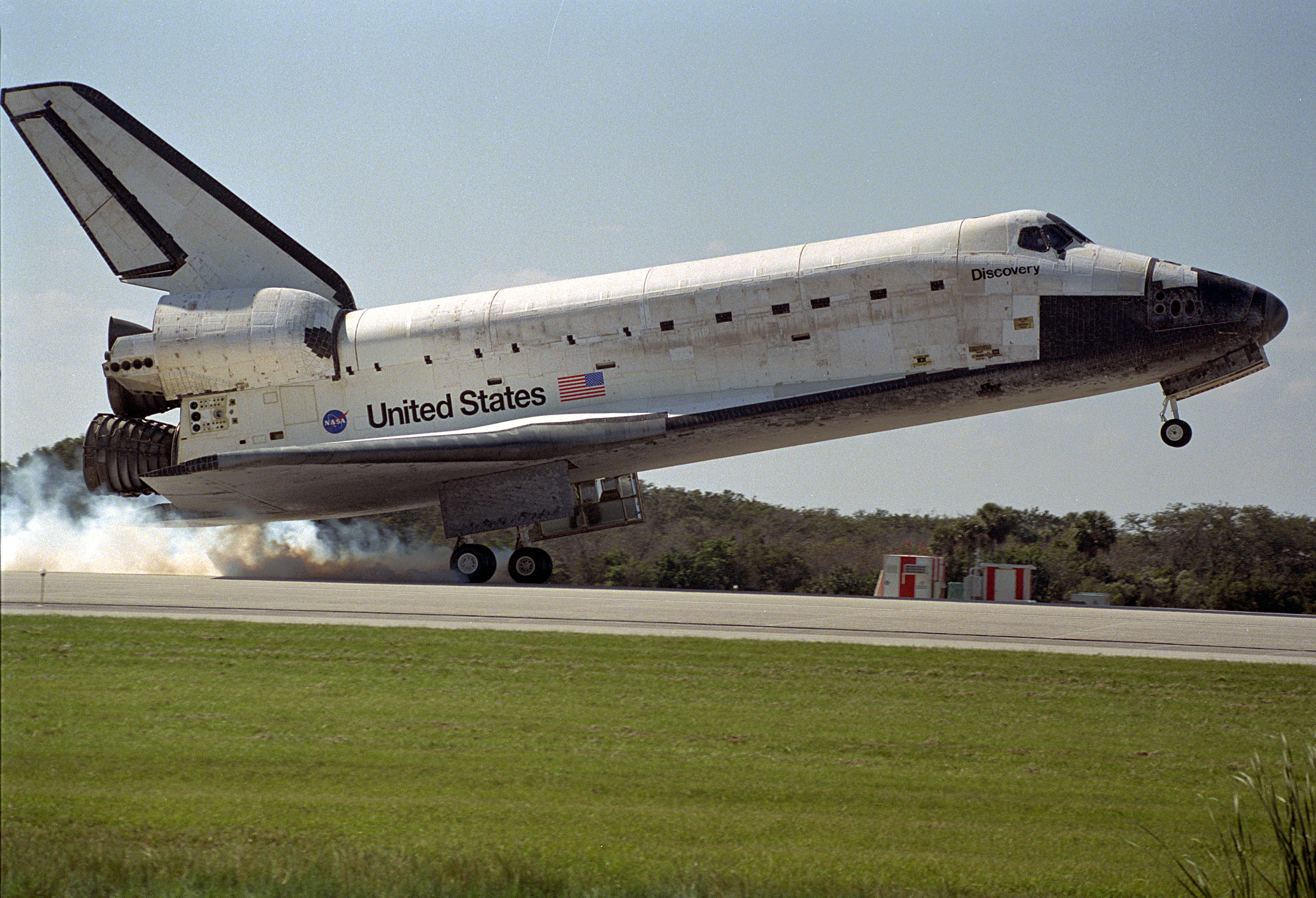 Orbiter Discovery is riding on its main landing gear as it lowers its nose wheel after touching down on Runway 33 at the Shuttle Landing Facility. Main gear touchdown was at 12:04 p.m. EST, landing on orbit 135. Discovery returns to Earth with its crew of seven after successfully completing mission STS-95, lasting nearly nine days and 3.6 million miles. The crew includes mission commander Curtis L. Brown, Jr.; pilot Steven W. Lindsey, mission specialists Scott E. Parazynski, Stephen K. Robinson, with the European Space Agency (ESA); payload specialist Chiaki Mukai, with the National Space Development Agency of Japan (NASDA); and payload specialist John H. Glenn, Jr., a senator from Ohio and one of the original seven Project Mercury astronauts. The mission included research payloads such as the Spartan-201 solar-observing deployable spacecraft, the Hubble Space Telescope Orbital Systems Test Platform, the International Extreme Ultraviolet Hitchhiker, as well as a SPACEHAB single module with experiments on space flight and the aging process.